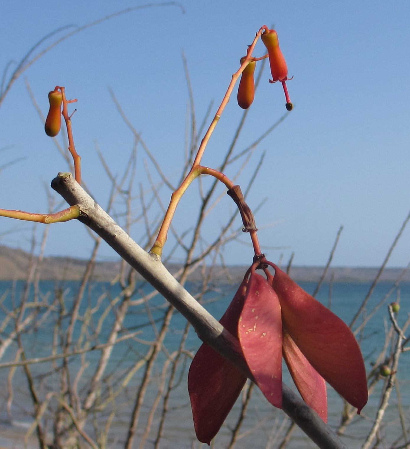 ID needed. Very strange tree. No idea even what the family is. Tubular flowers (with 5 lobes) and up to 5 red inflated samara's (one-seeded winged dry fruits) from one flower. Hildegardia migeodii (Sterculaceae), an endangered species.